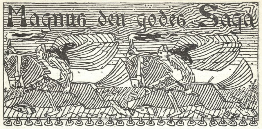 Gerhard Munthe: Illustration for Magnus den godes saga, Heimskringla 1899-edition. Tittelfrise.